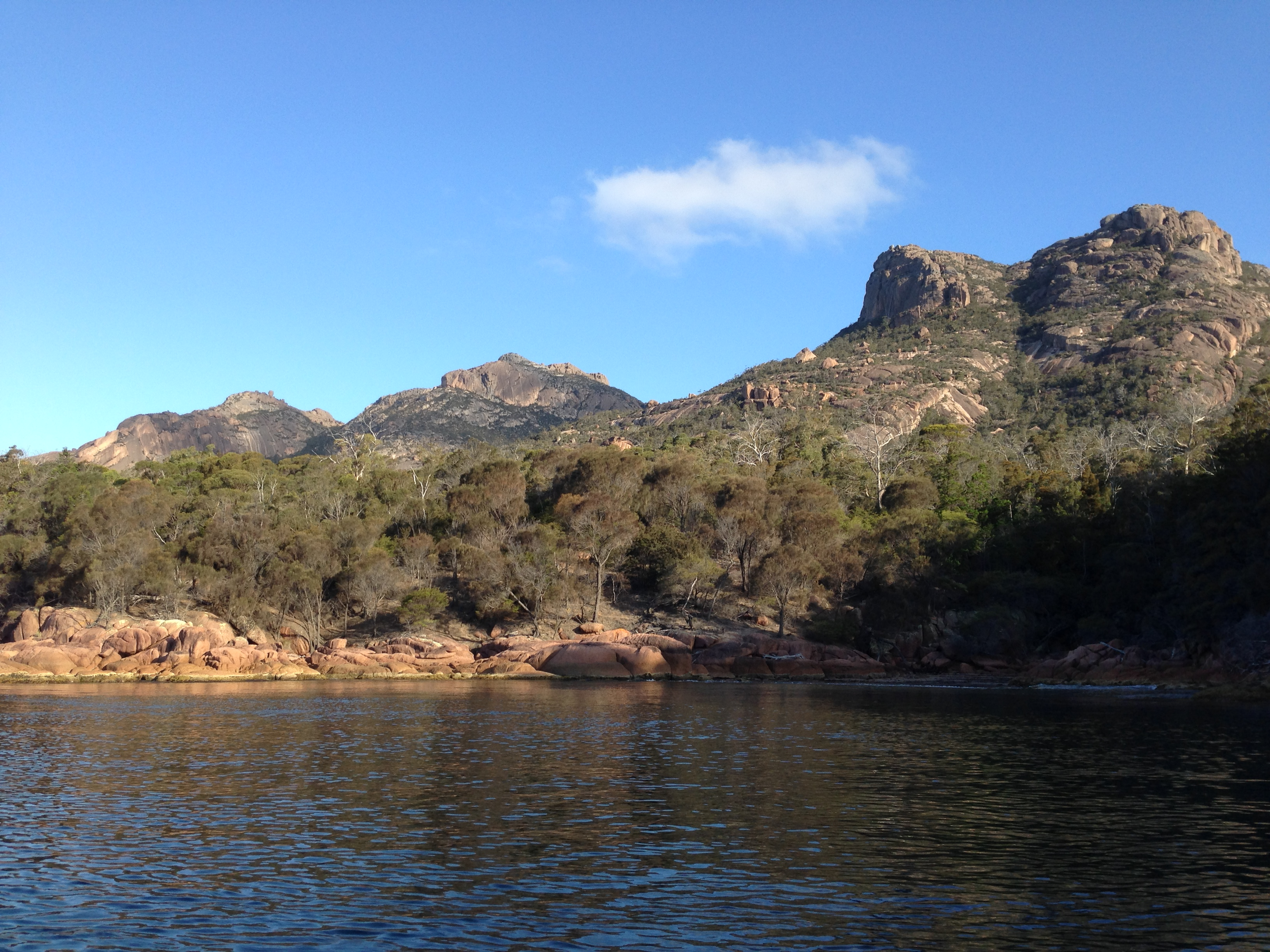 'The Hazards' in Tasmania, Australia.